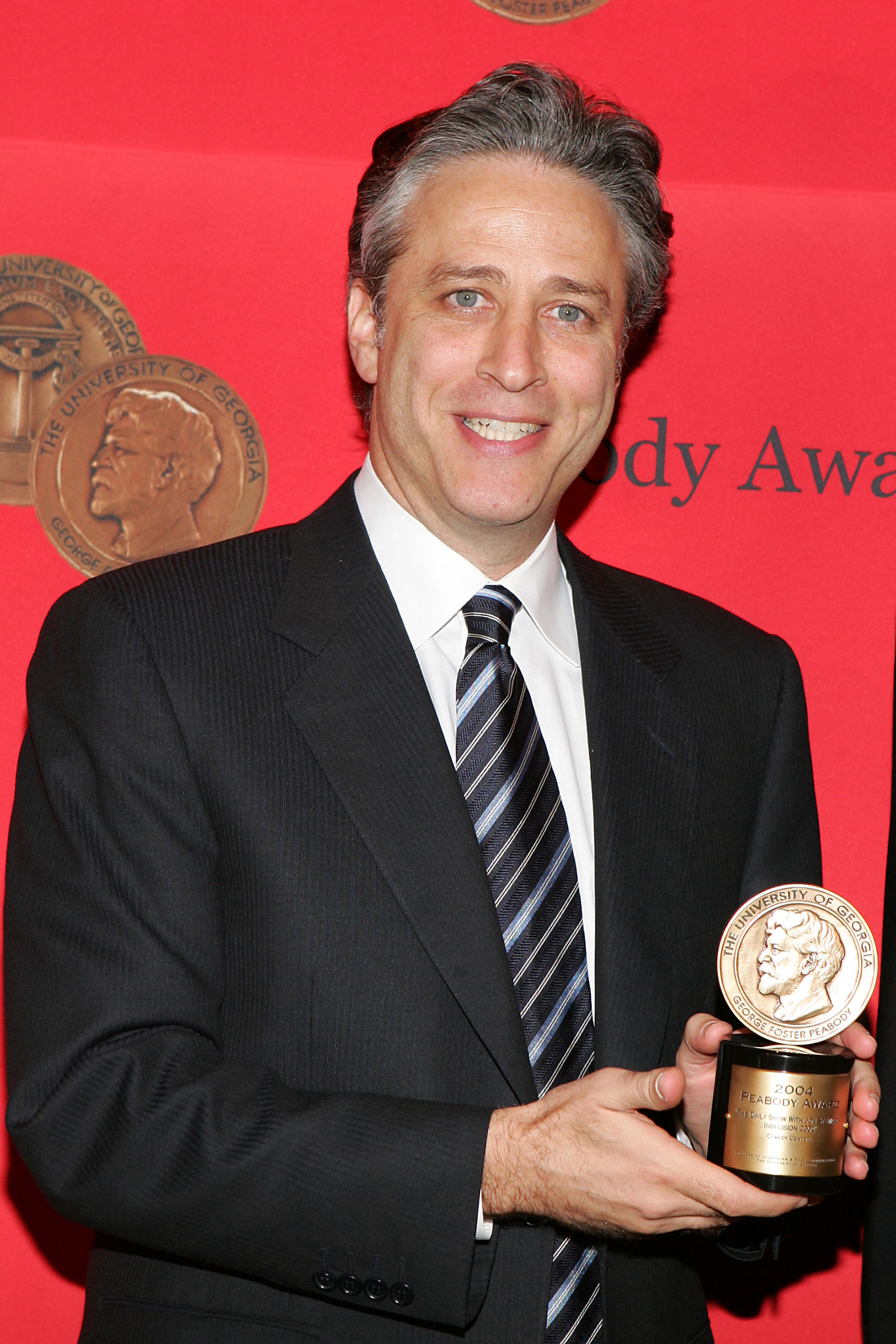 64th Annual Peabody Awards Luncheon Waldorf Astoria New York, NY USA May 16, 2005